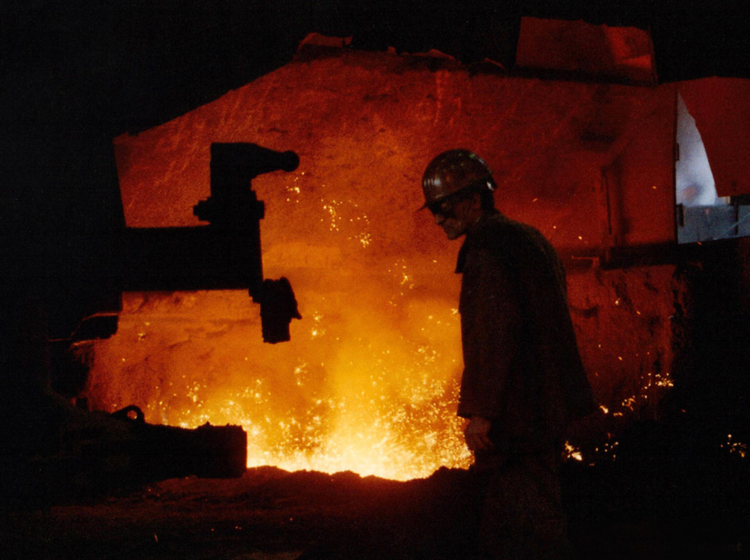 Clabecq (Belgium), continuous casting of the old blast furnace.